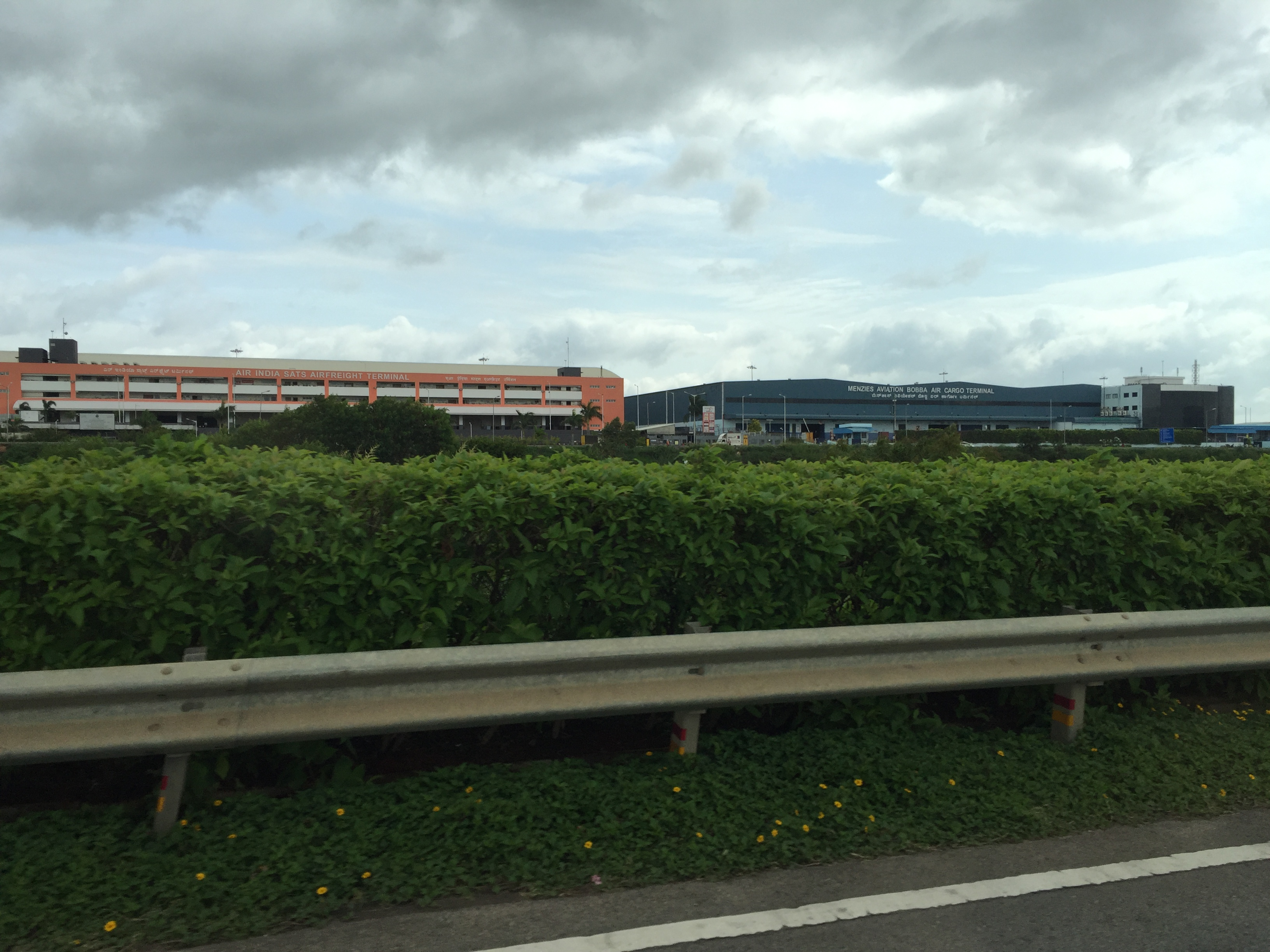 Menzies Aviation Bobba and AISATS cargo terminals at Kempegowda Airport, Bangalore